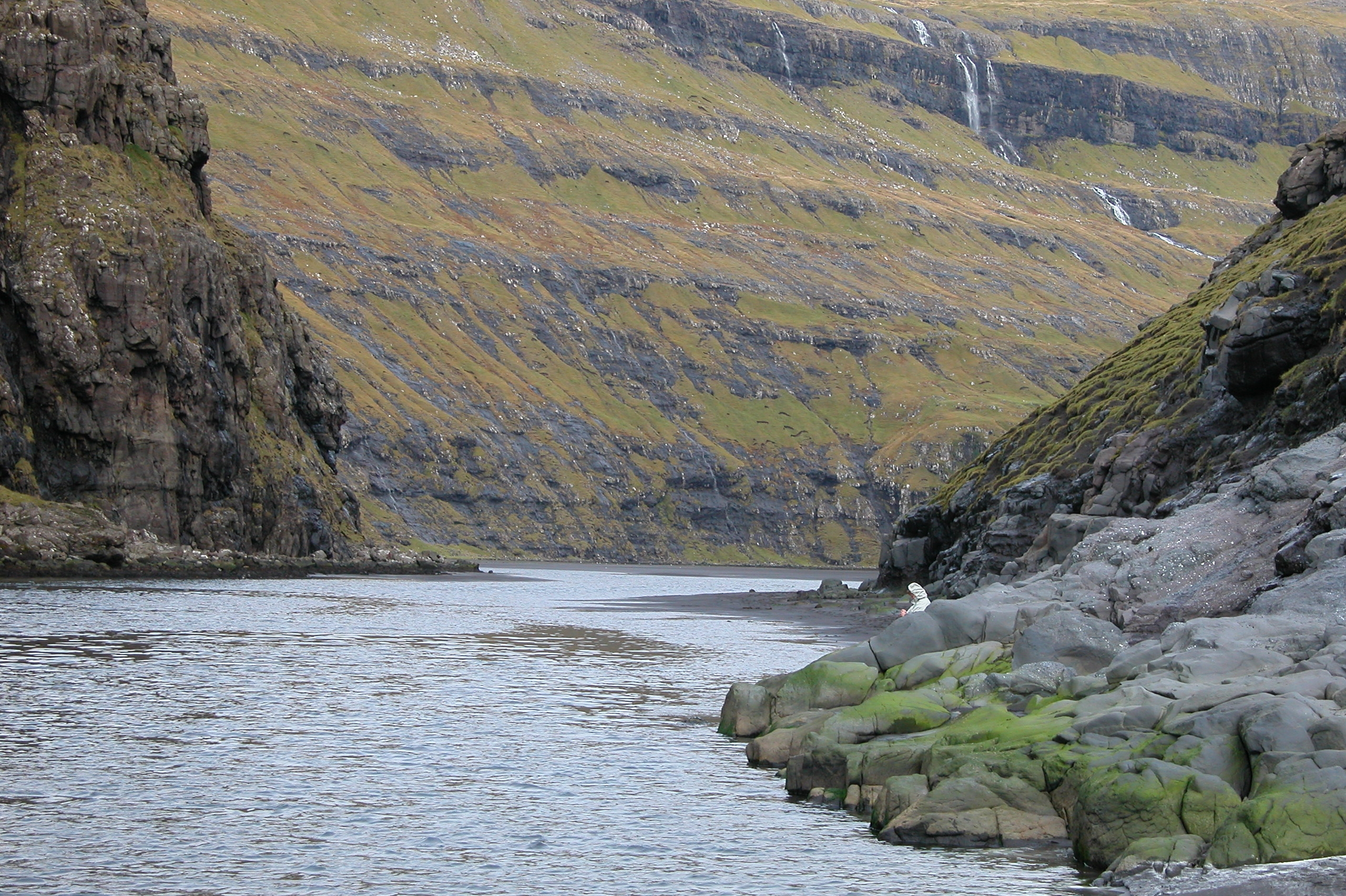 Saksun on Streymoy, Faroe Islands.